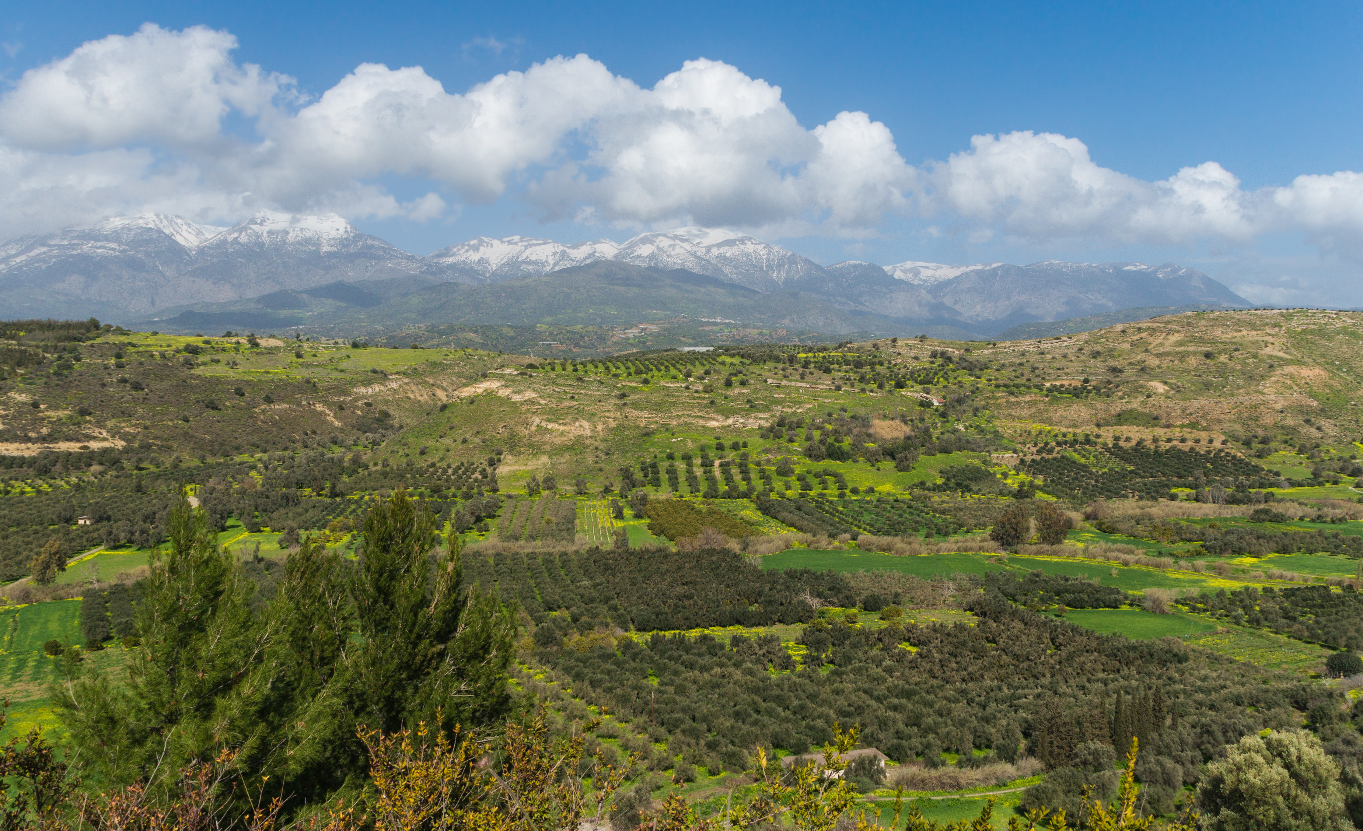 The mount Ida chain and the Messara plain seen from Phaistos, Crete, Greece.